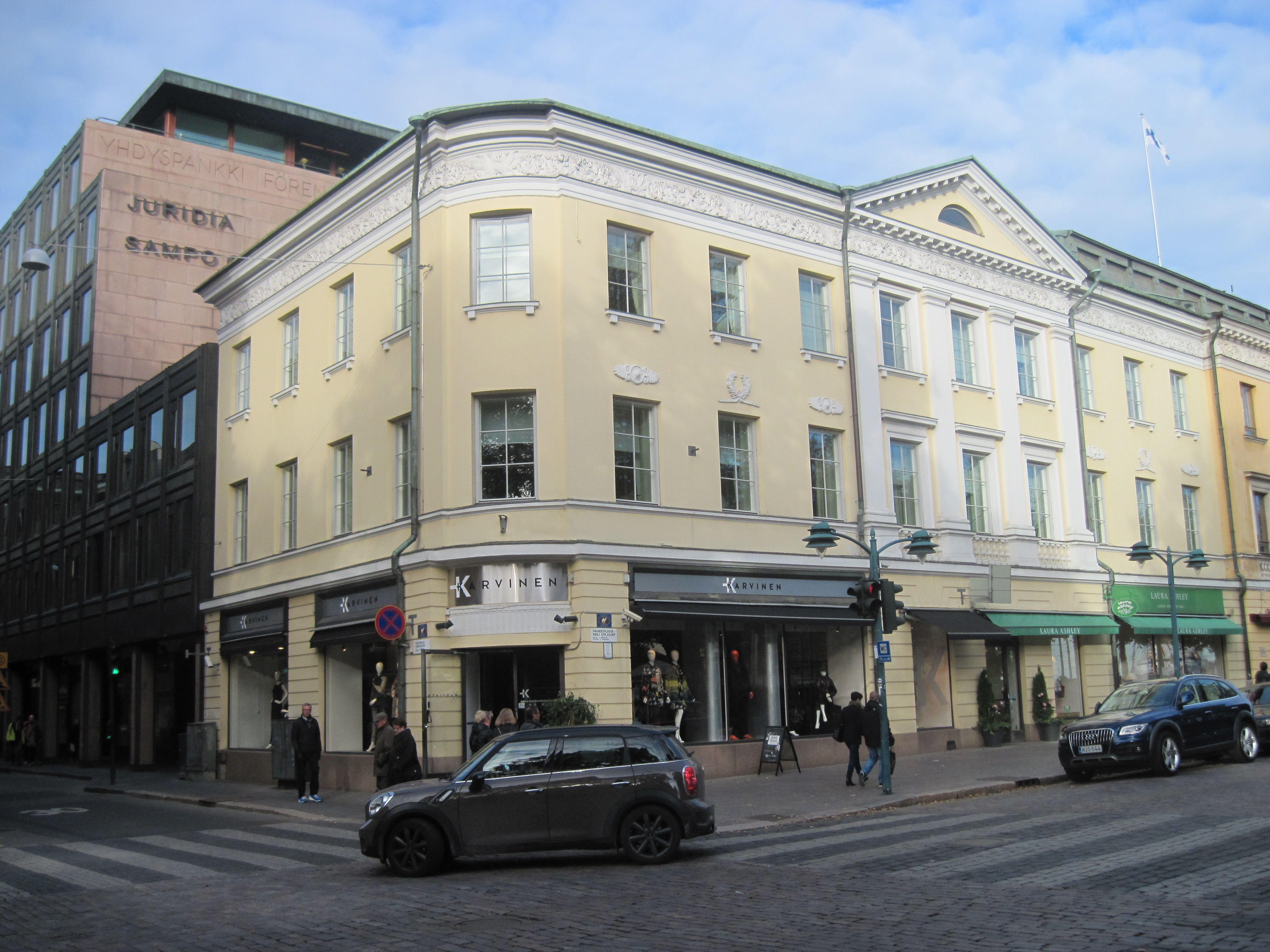 Palmqvist House, Pohjoisesplanadi 23, Helsinki